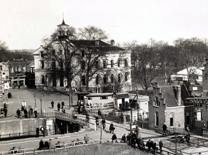 Stadhuis te Zaandam, n neoclassicistisch pand, gebouwd in 1846-'48 naar ontwerp van W.A. Scholten